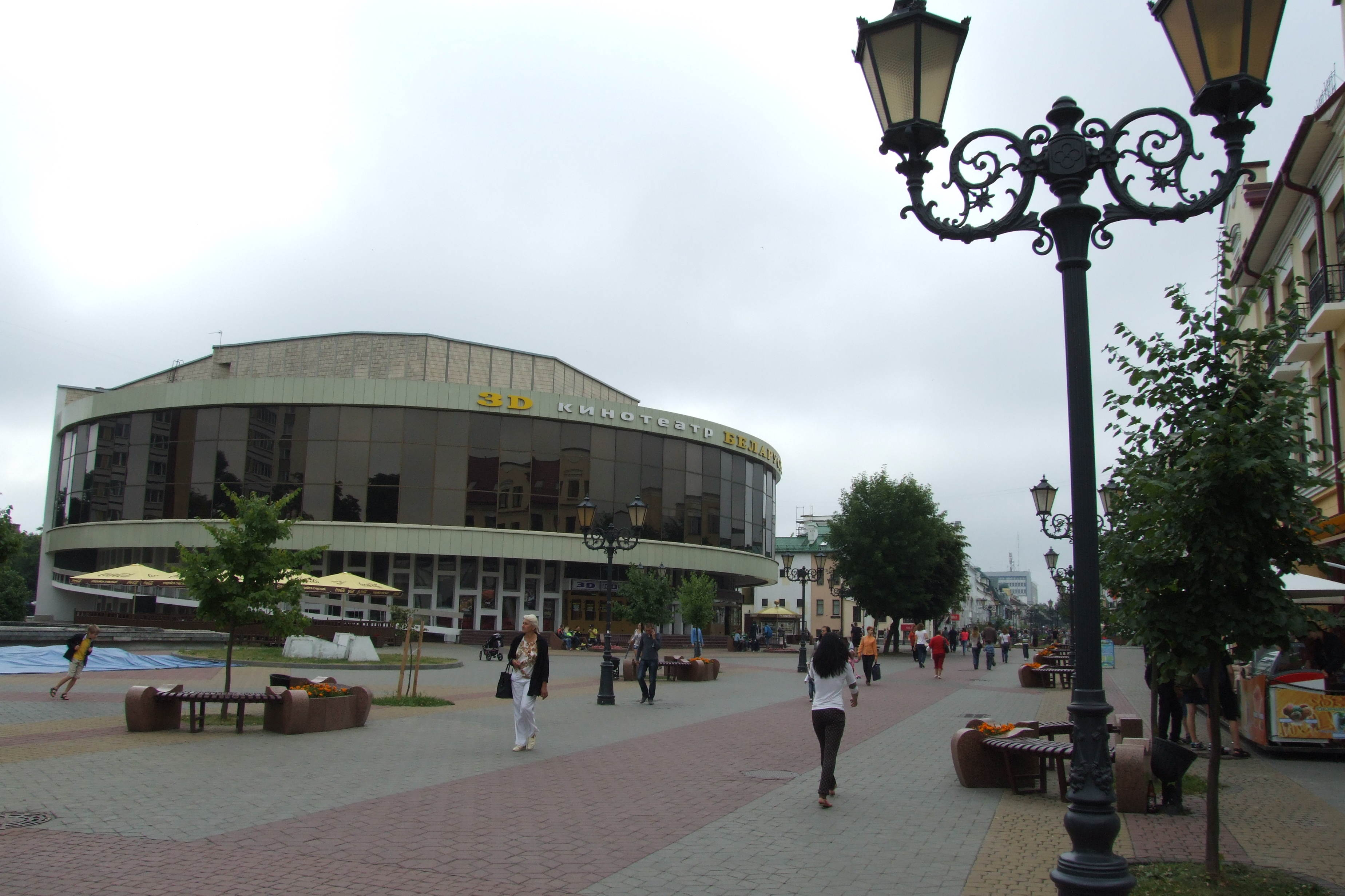 The former Brest Main Synagogue, after WWII turned to a cinema; on ul. Sovetskaya